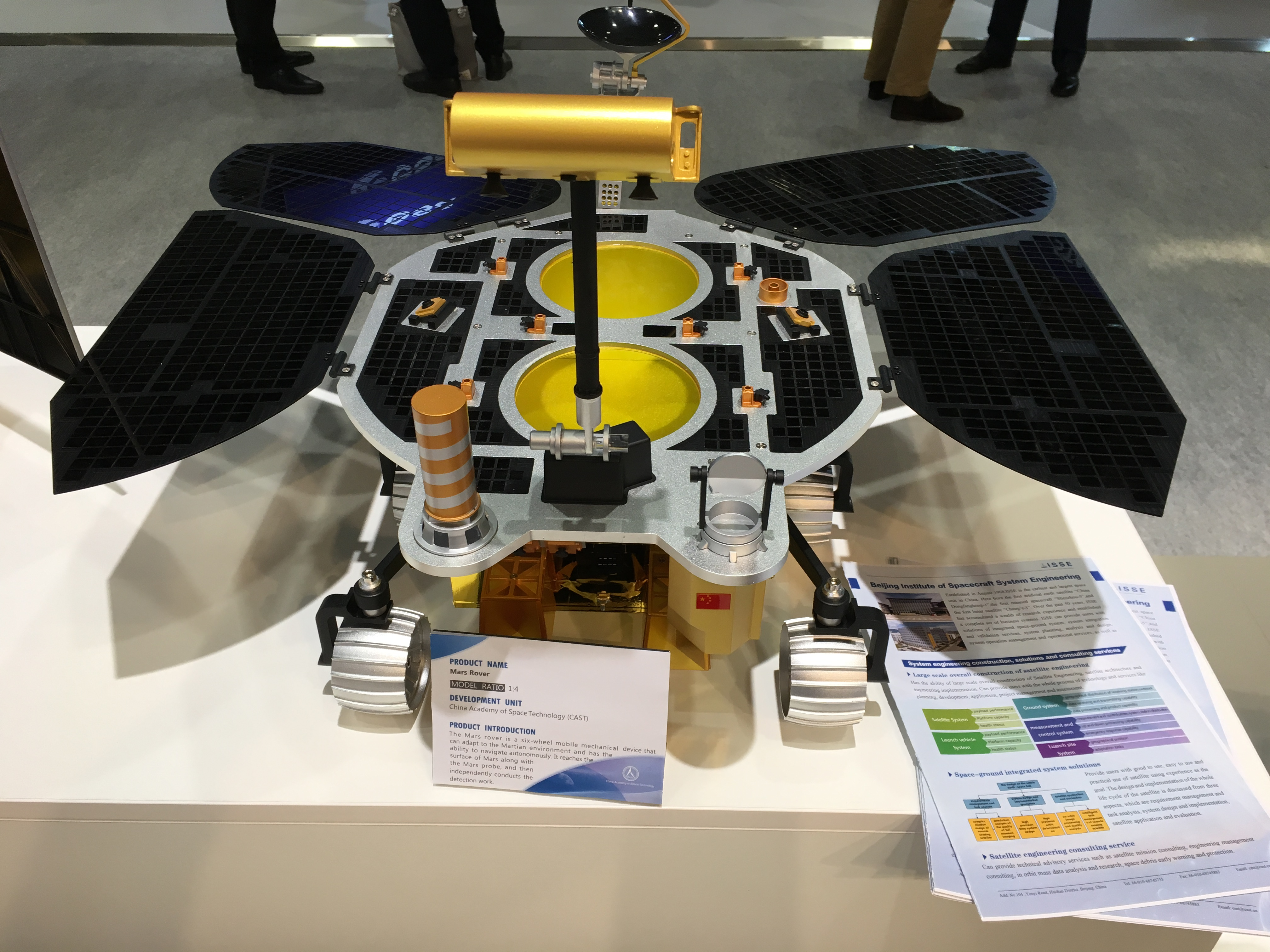 Mockup of the Mars Global Remote Sensing Orbiter and Small Rover at the 69th International Astronautical Congress 2018 at Bremen